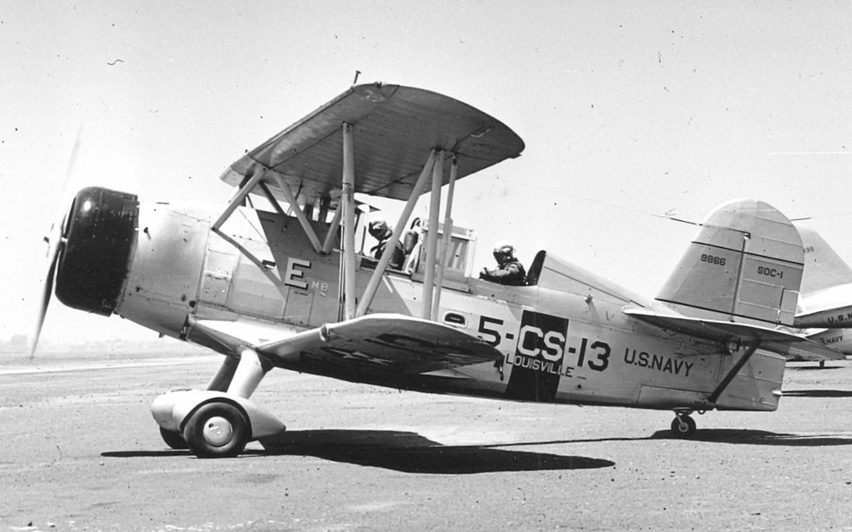 Visitor to Oakland in July 1941. From the Cruiser LOUISVILLE.